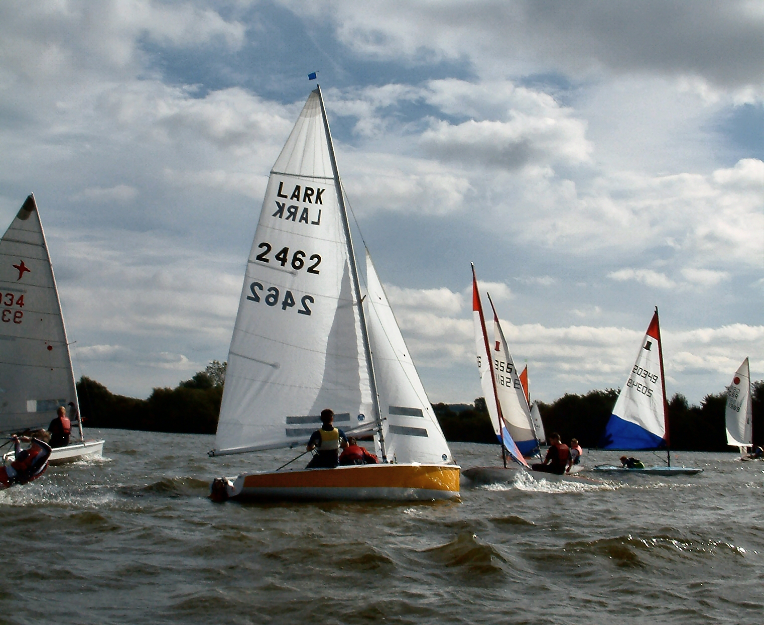 David and Robert Marlow sailing Lark 2462 "Mr Bigglesworth" in the Kingfisher Cup at Attenborough Sailing Club (near Nottingham, UK) in 2004.